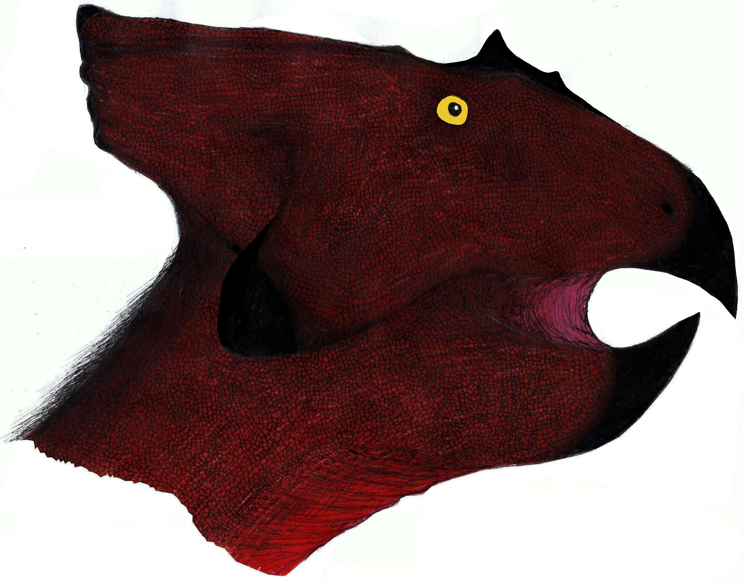 Head reconstruction of Breviceratops